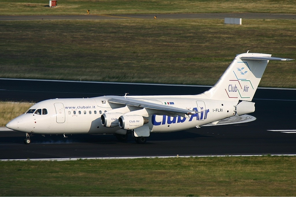 Club Air BAe 146-200